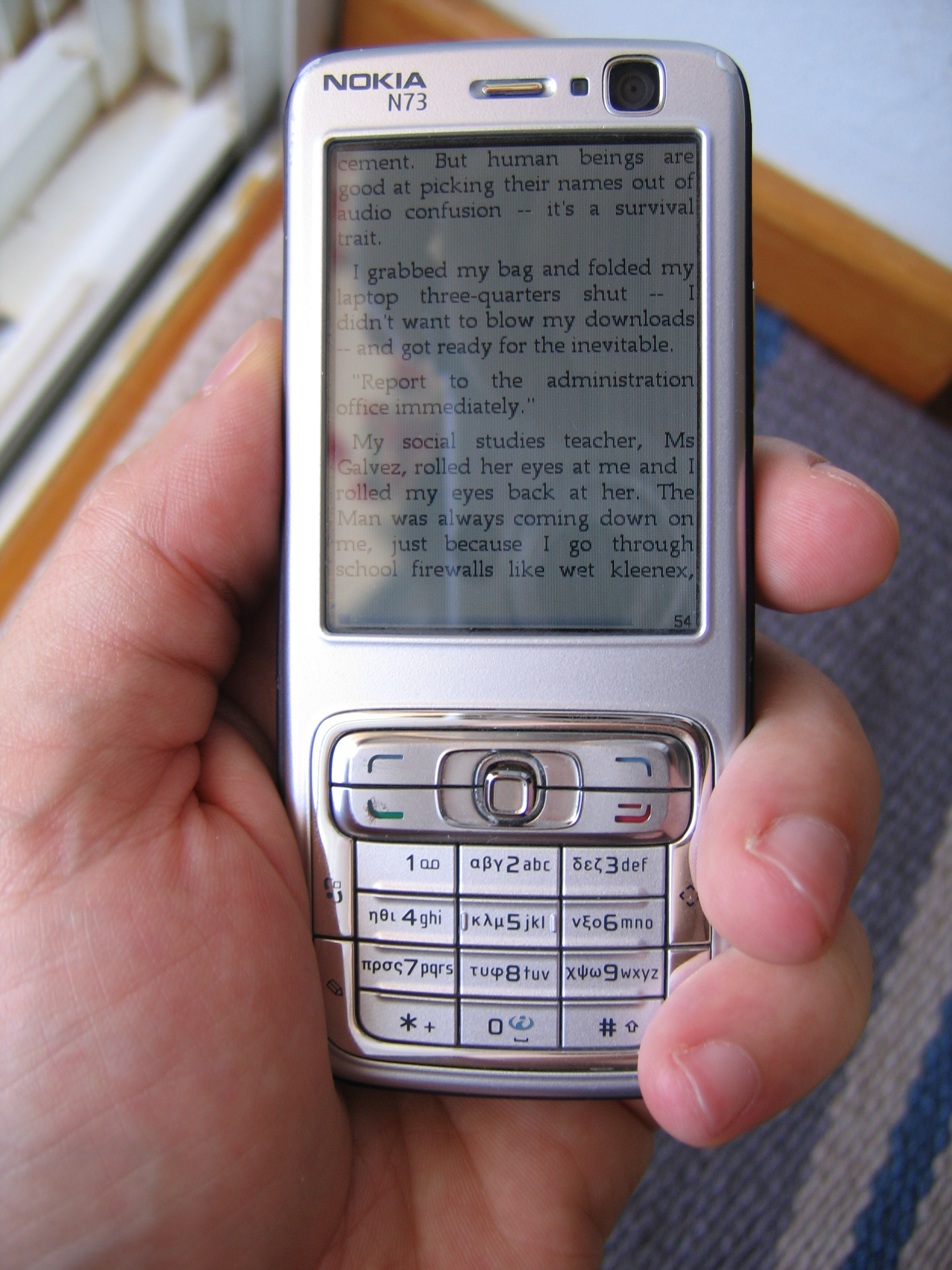 Nokia N73 smartphone displaying part of the e-book Little Brother by Cory Doctorow, which is available under a Creative Commons license.